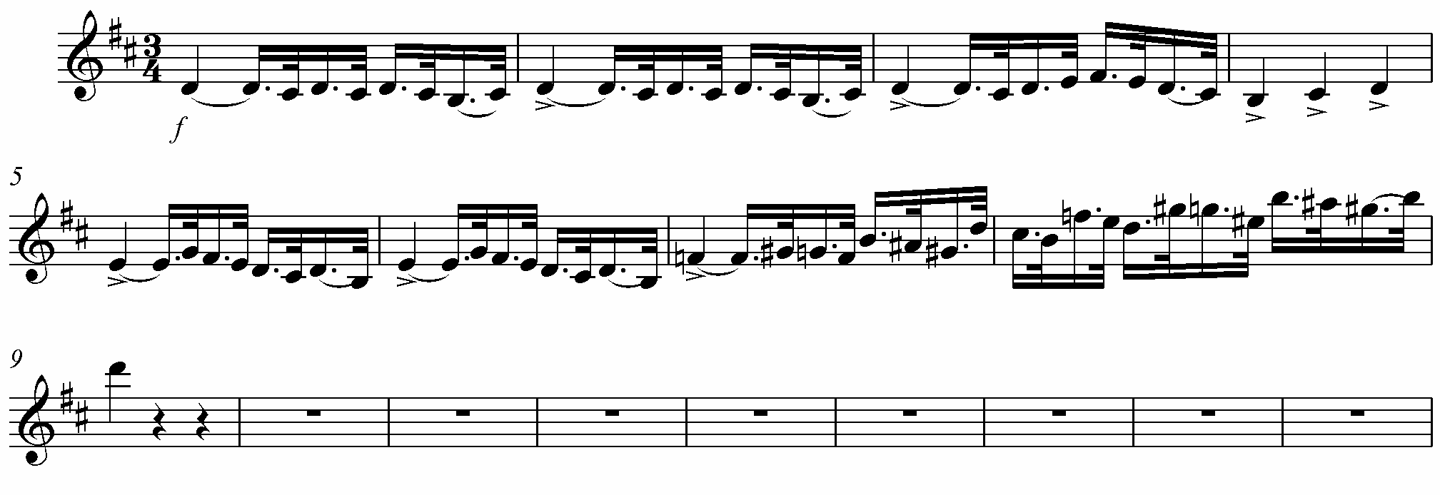 sheet music excerpt made in Sibelius